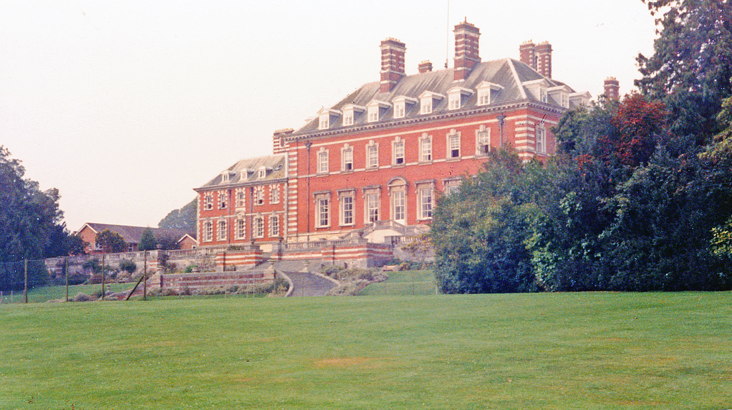 Bryanston School, 1986. View NW of front of main building. My 'Alma Mater